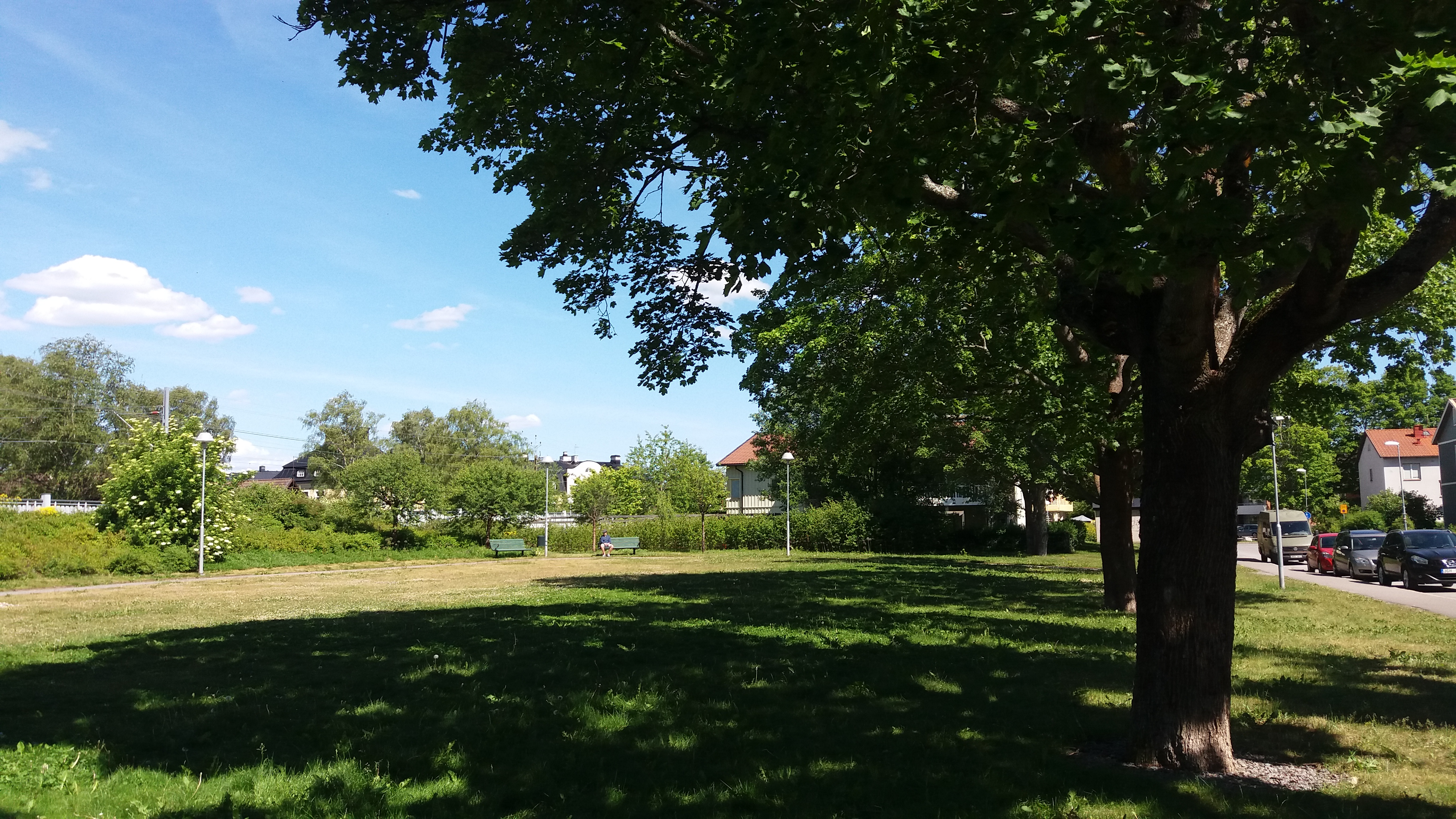 Banvaktsparken, Uppsala.